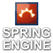 Official Spring symbol with wordmark